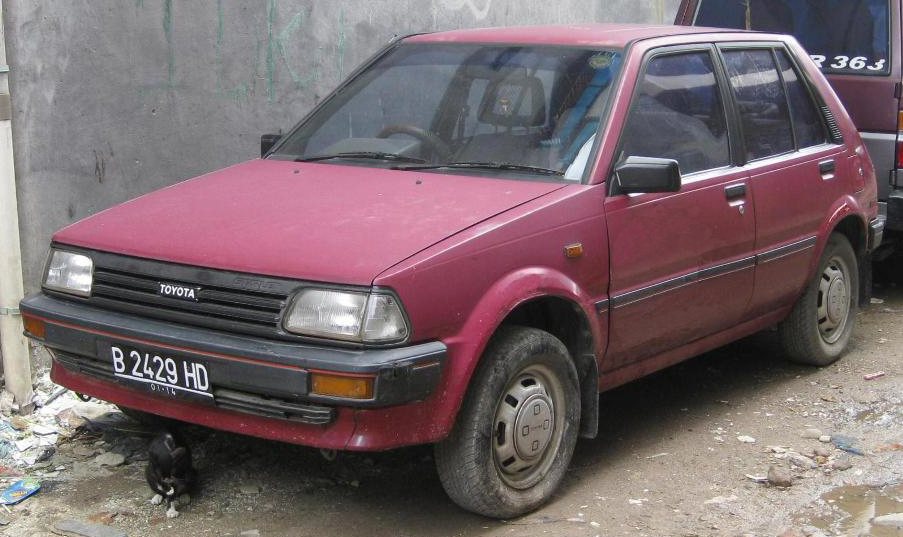 1986-1987 Toyota Starlet 1.3 SE (EP71) 5 door Hatchback, photographed in Jakarta, Indonesia.